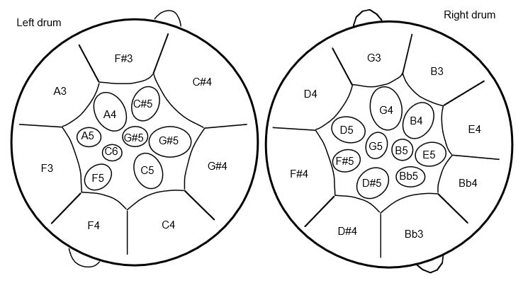 Proposed layout for double tenor steelpan